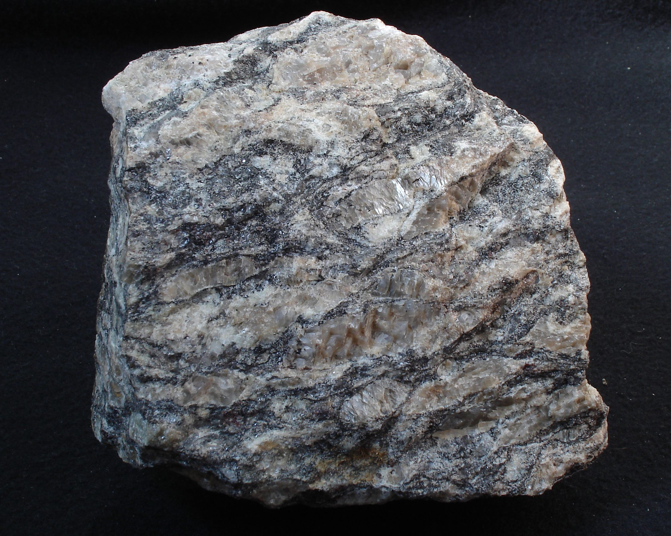 Augen-gneiss. The feldspar size average 4 cm long. Local: Leblon, Rio de Janeiro City, Brazil Date:31-03-2006 Free for all use Author:Eurico Zimbres